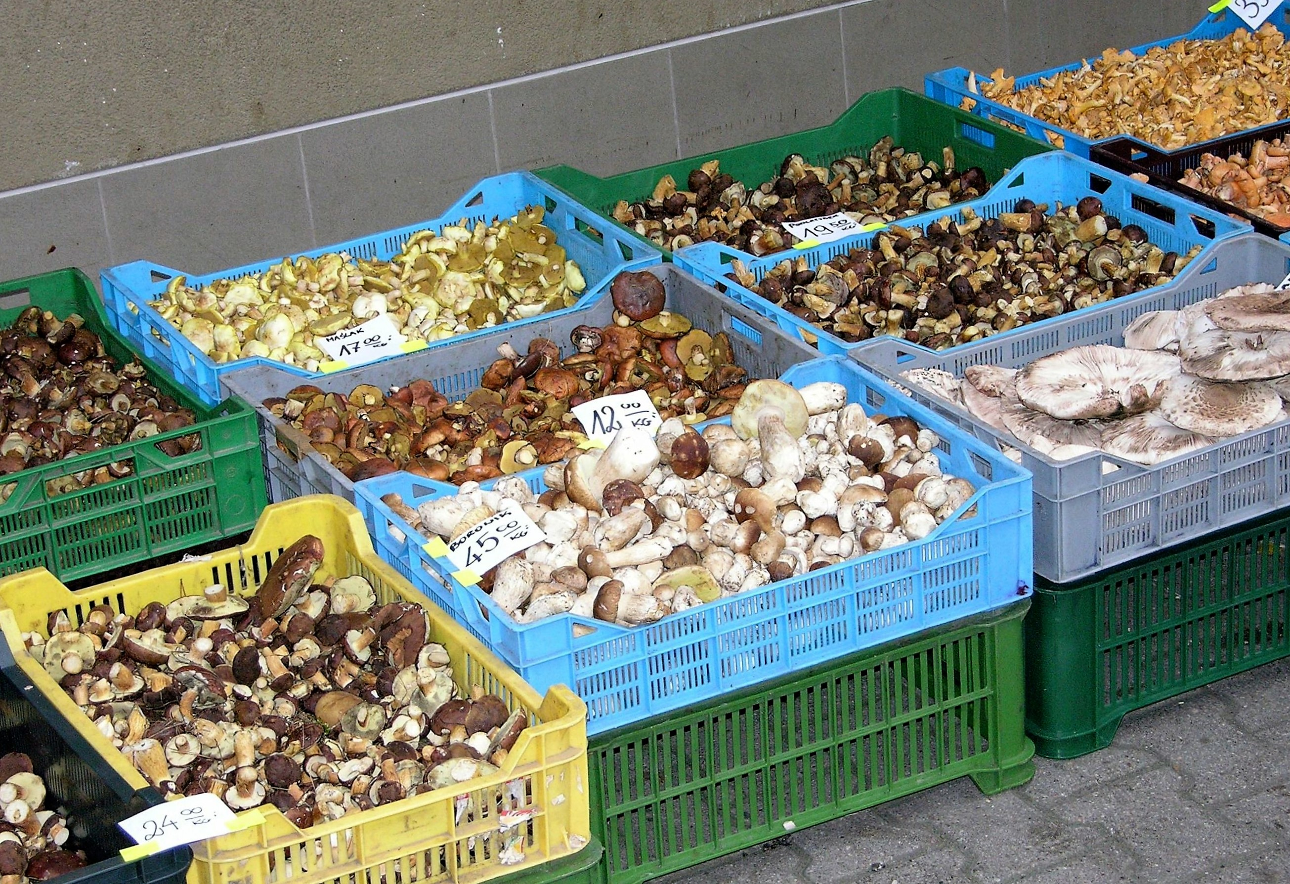 Mushrooms sold at 46 Belgradzka Street in Warsaw